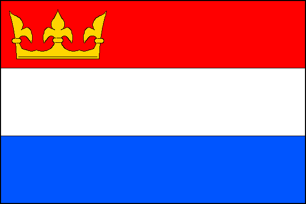 Municipal flag of Velehrad village, Uherské Hradiště District, Czech Republic.